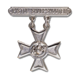 pistol sharpshooter marksmanship badge